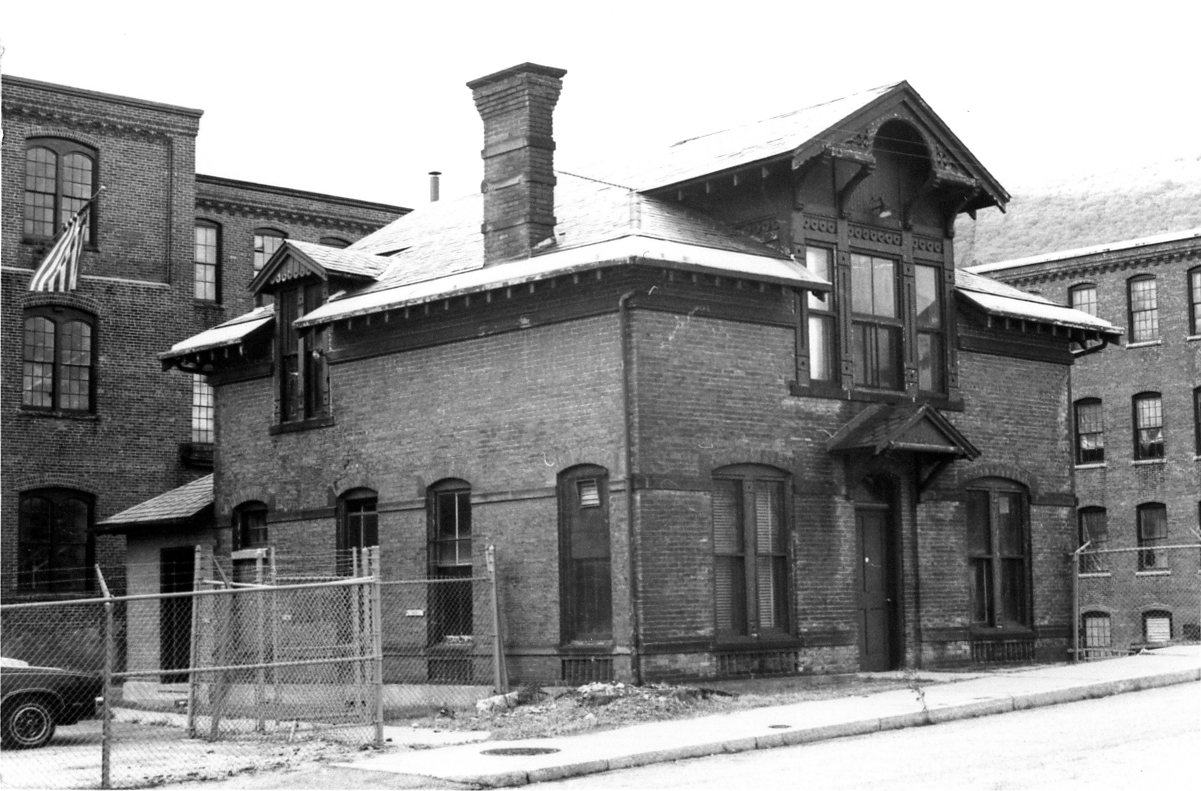 Johnson Company Office Building, North Adams, Massachusetts. This building has been demolished.